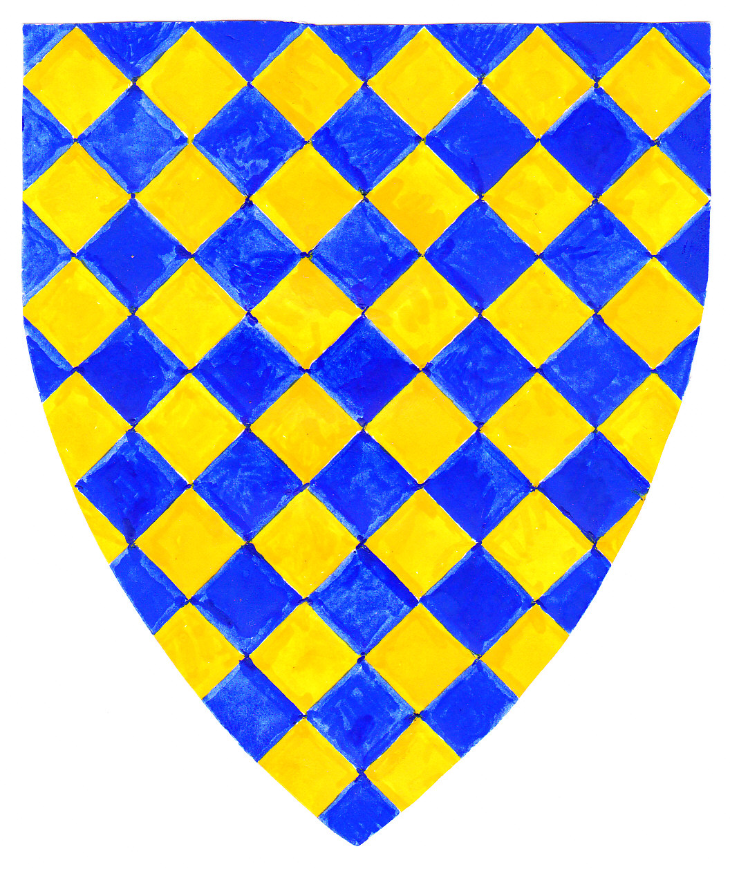 The armorials "Lozengy Or and azure" borne by the families of Morville, Gorges and Warbleton. As depicted on the Dering Roll (1270/80) for Thomas de Warbotone(Dering Roll, number 122[1])